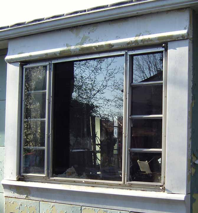 Detail: tripartite window of Lustron home. Window consists of a single central light and two four-light casements.